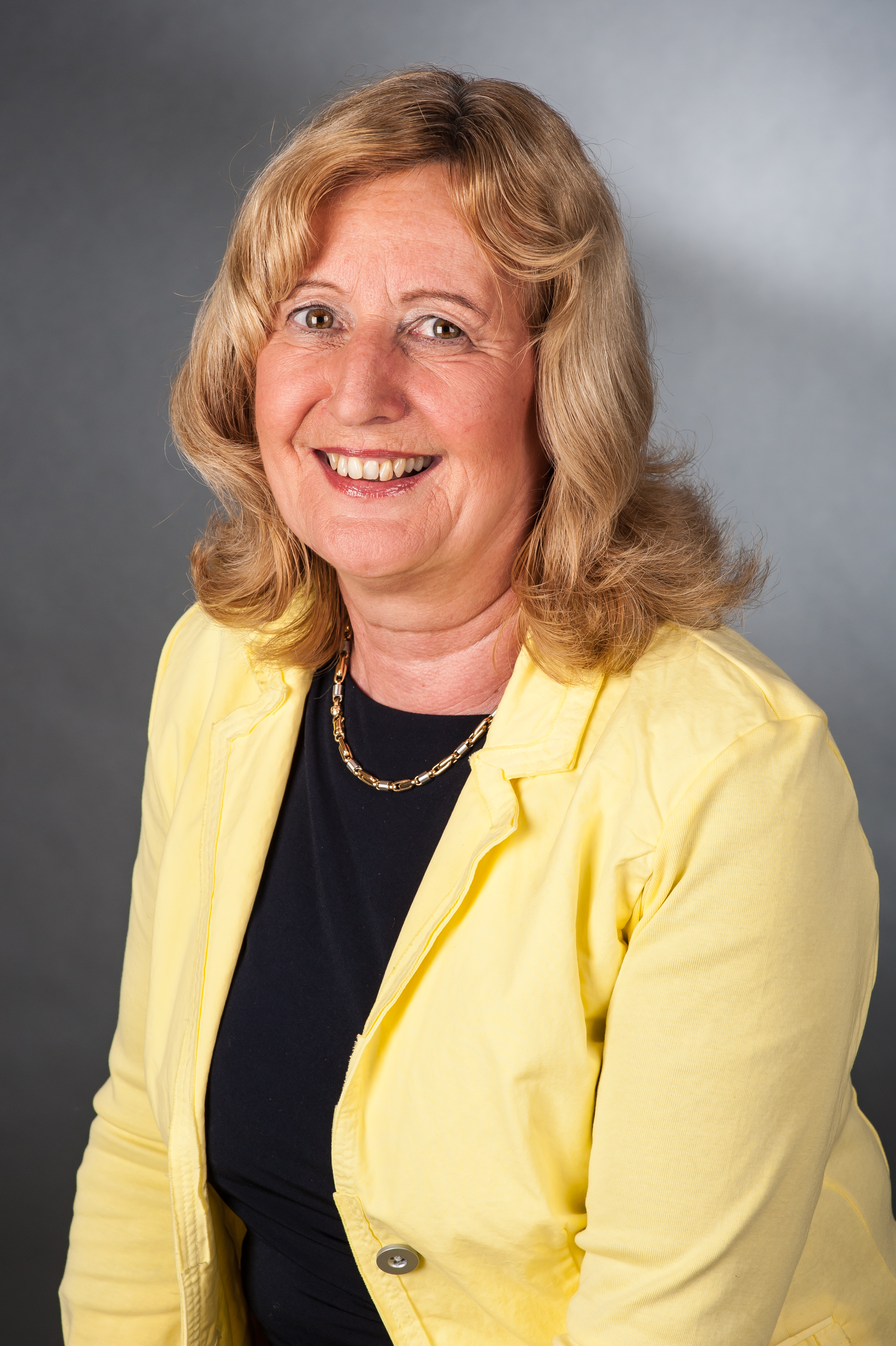 Wikipedia im Landtag – Niedersachsen 17. bis 18. April 2013 in Hannover Personality rights warningAlthough this work is freely licensed or in the public domain, the person(s) shown may have rights that legally restrict certain re-uses unless those depicted consent to such uses. In these cases, a model release or other evidence of consent could protect you from infringement claims.